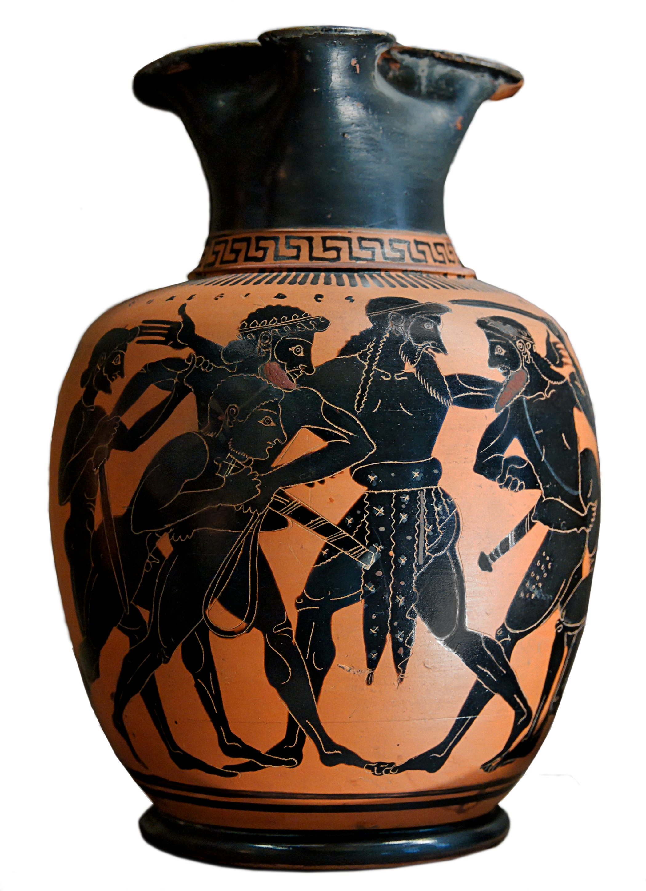 Dispute between Ajax and Odysseus for Achilles' armour. Attic black-figure oinochoe, ca. 520 BC. Kalos inscription. Originally photograph by © Marie-Lan Nguyen / Wikimedia Commons This version has been edited to reduce the glare